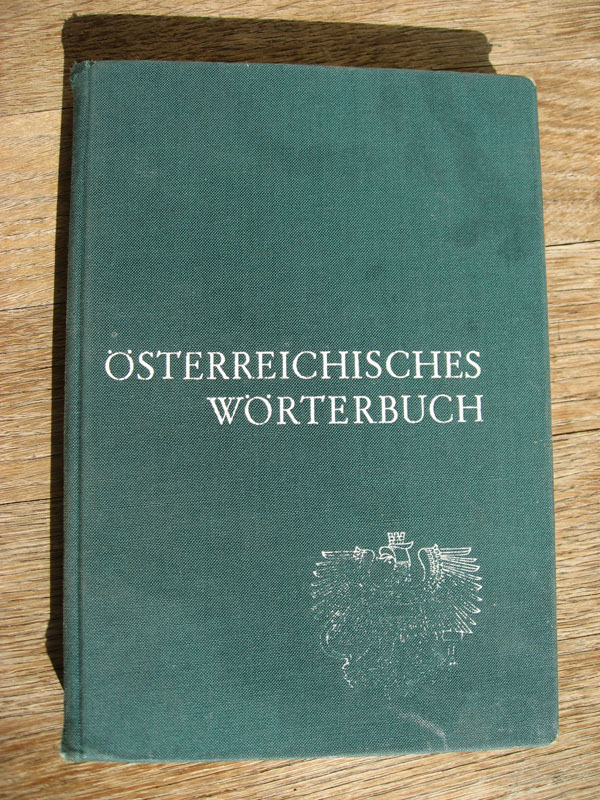 Cover of the official Austrian dictionary (Österreichisches Wörterbuch), 32nd edition, medium size version for use in schools